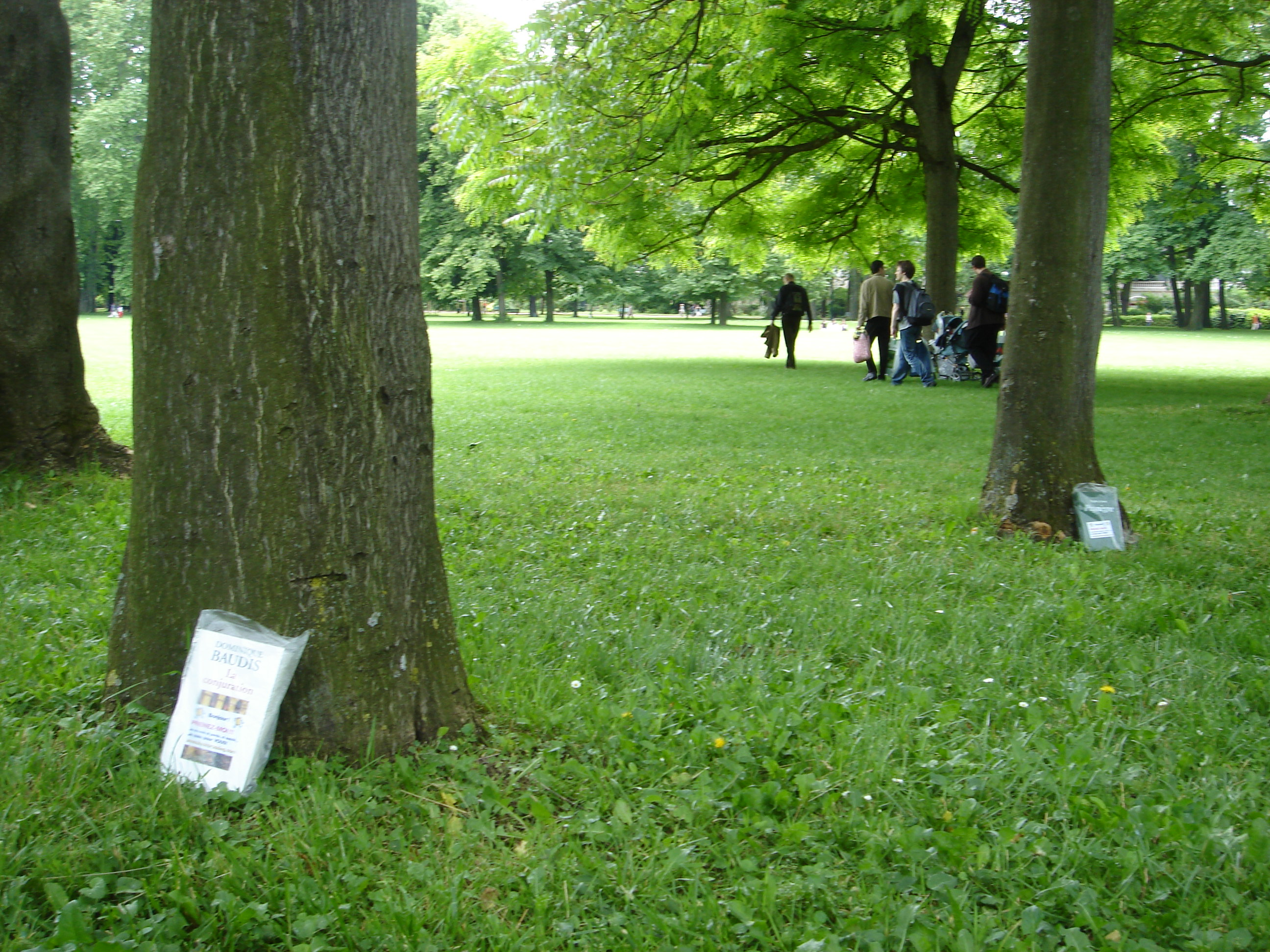 Example of a book "released" by a bookcrosser.